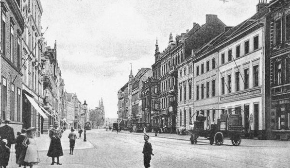 Cologne - Neusser Straße direction to cathedral (approx. 1900)